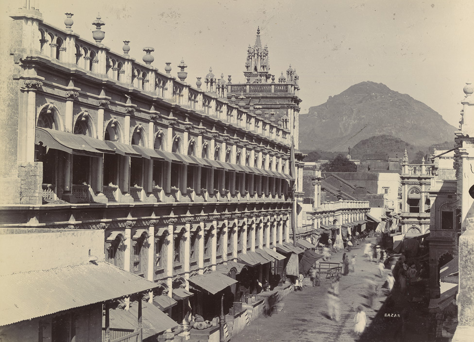 Photograph of a bazaar at Junagadh in Gujarat, taken by F. Nelson in the 1890s. The album is inscribed: “With best compliments from H.H. Rasulkhanji, Nawab of Junagadh (India)” and was formerly in the collection of Sir William Lee-Warner (1846-1912), who served in the Indian Civil Service and was a Member of the Council of India between 1902 and 1912. This is a view looking down a bazaar in Junagadh. It is designed in the same arcaded classical style as the New Bazaar terrace adjoining the city palace, which dates from the reign of Nawab Mahabat Khan II (r.1851-1882).